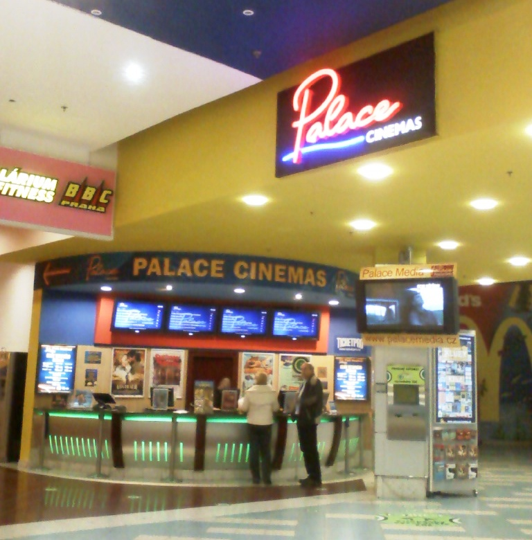 Palace Cinemas Park Hostivar in Prague, The Czech Republic